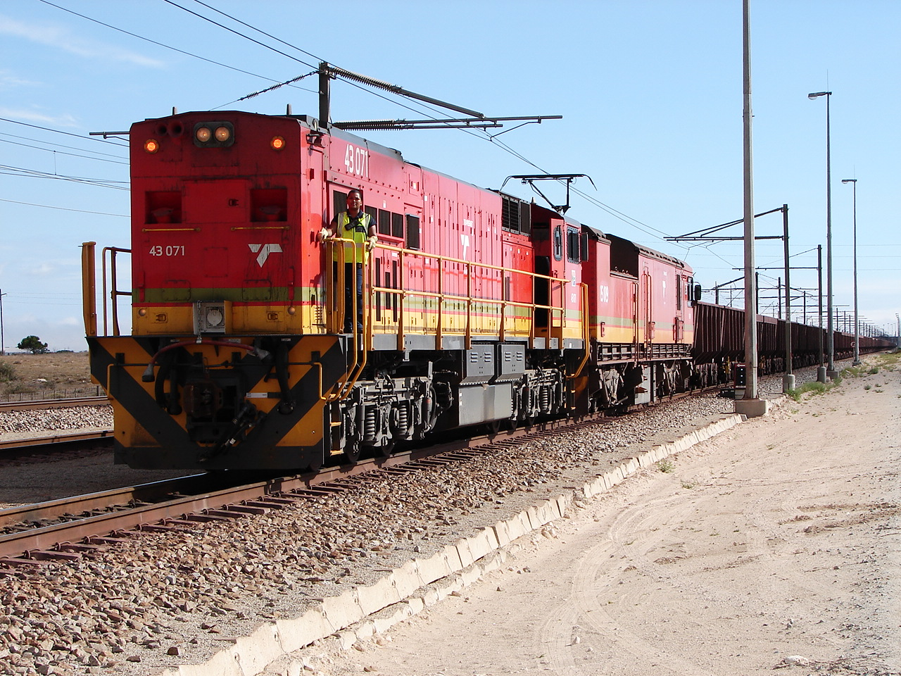 South African Class 43-000 43-071Type: GE C30ACiLocation: Saldanha, Western Cape